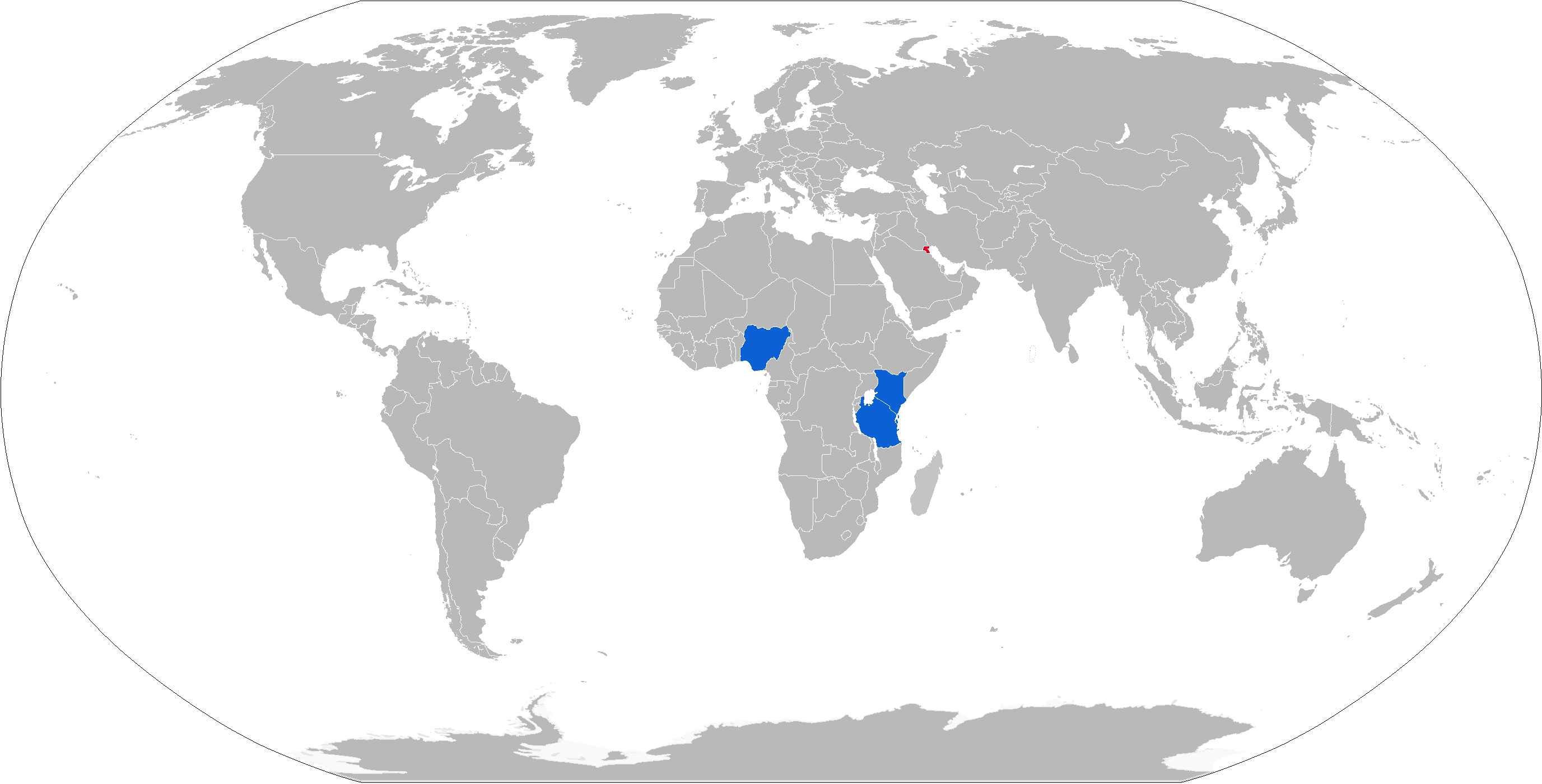 Map of Vickers operators in blue with former operators in red